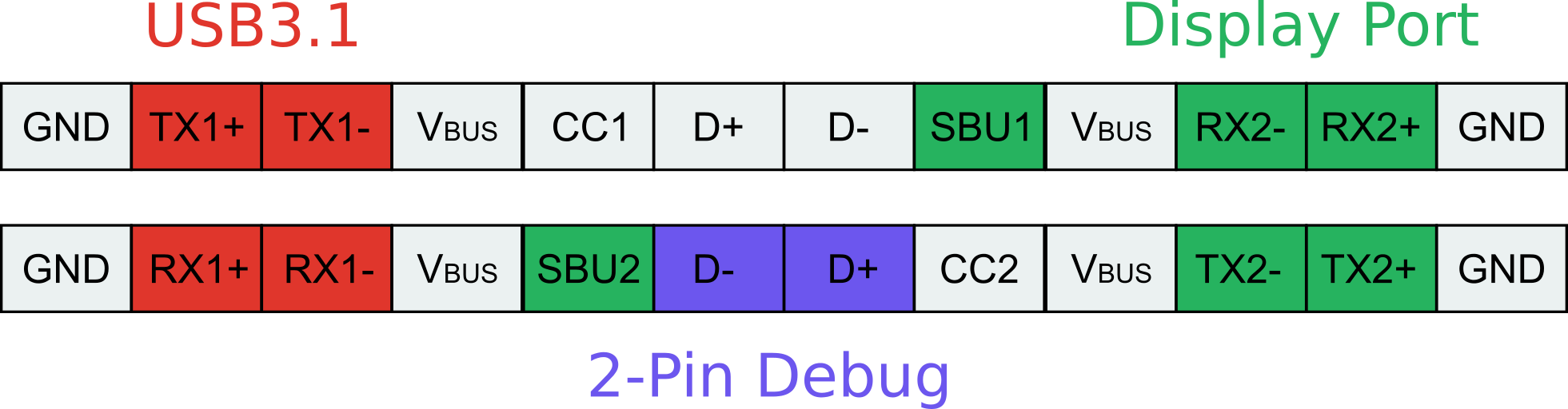 Type-C connector with USB2 pins reused for debugging via SWD